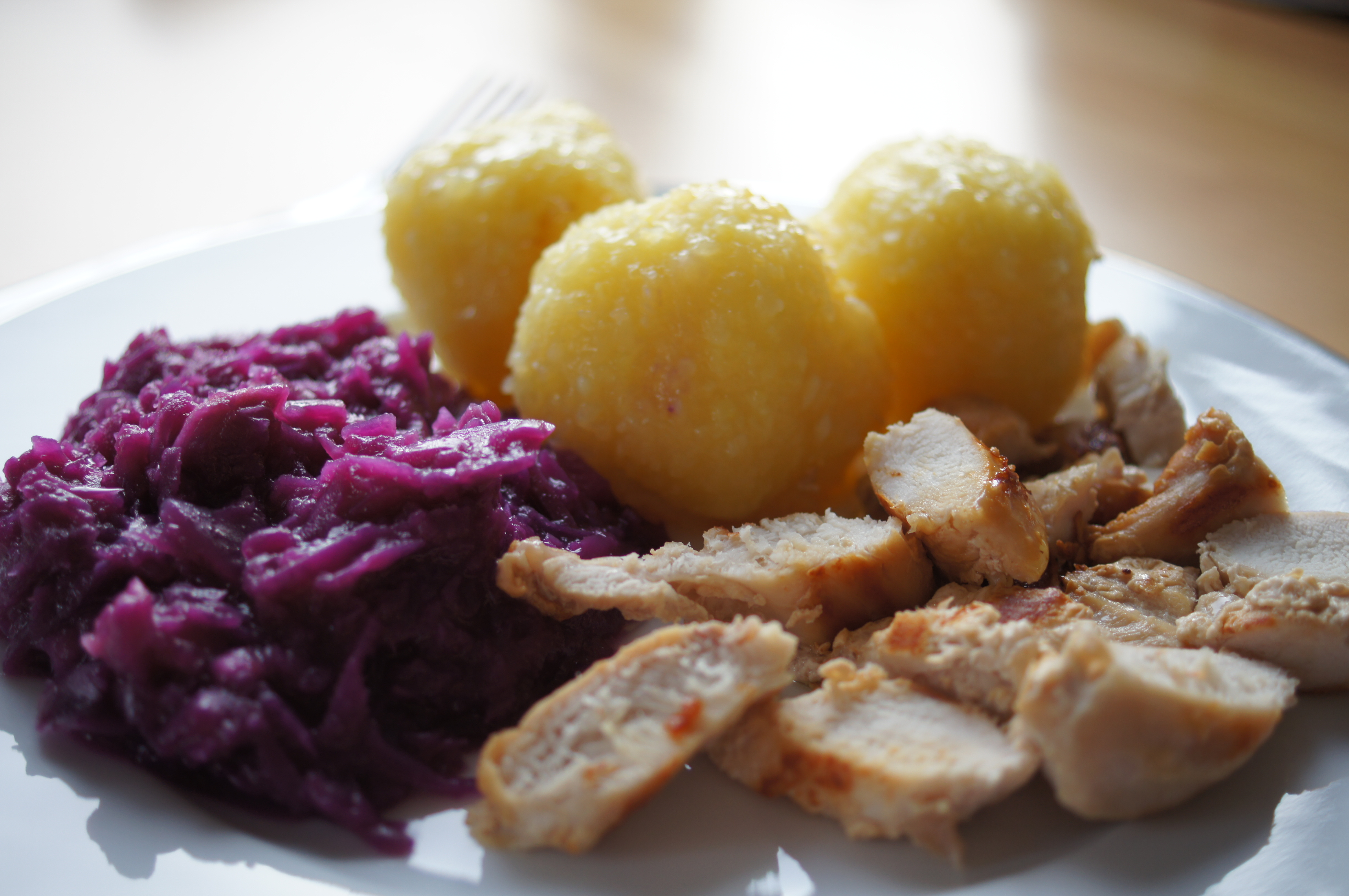 Roast rabbit filet, Thüringer Klöße, and red cabbage